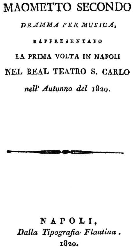 Gioachino Rossini - Maometto II - titlepage of the libretto - Naples 1820